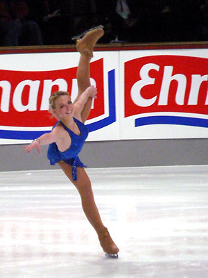 Katharina Häcker during her short program at the 2007 Nebelhorn Trophy.